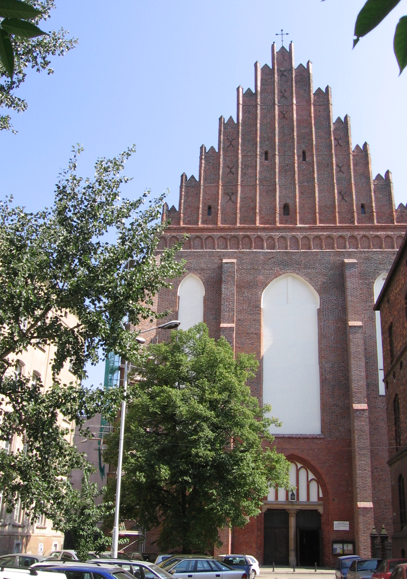 Wroclaw, Poland st. Dorothea's, Waclaw's & Stanislaw's Church